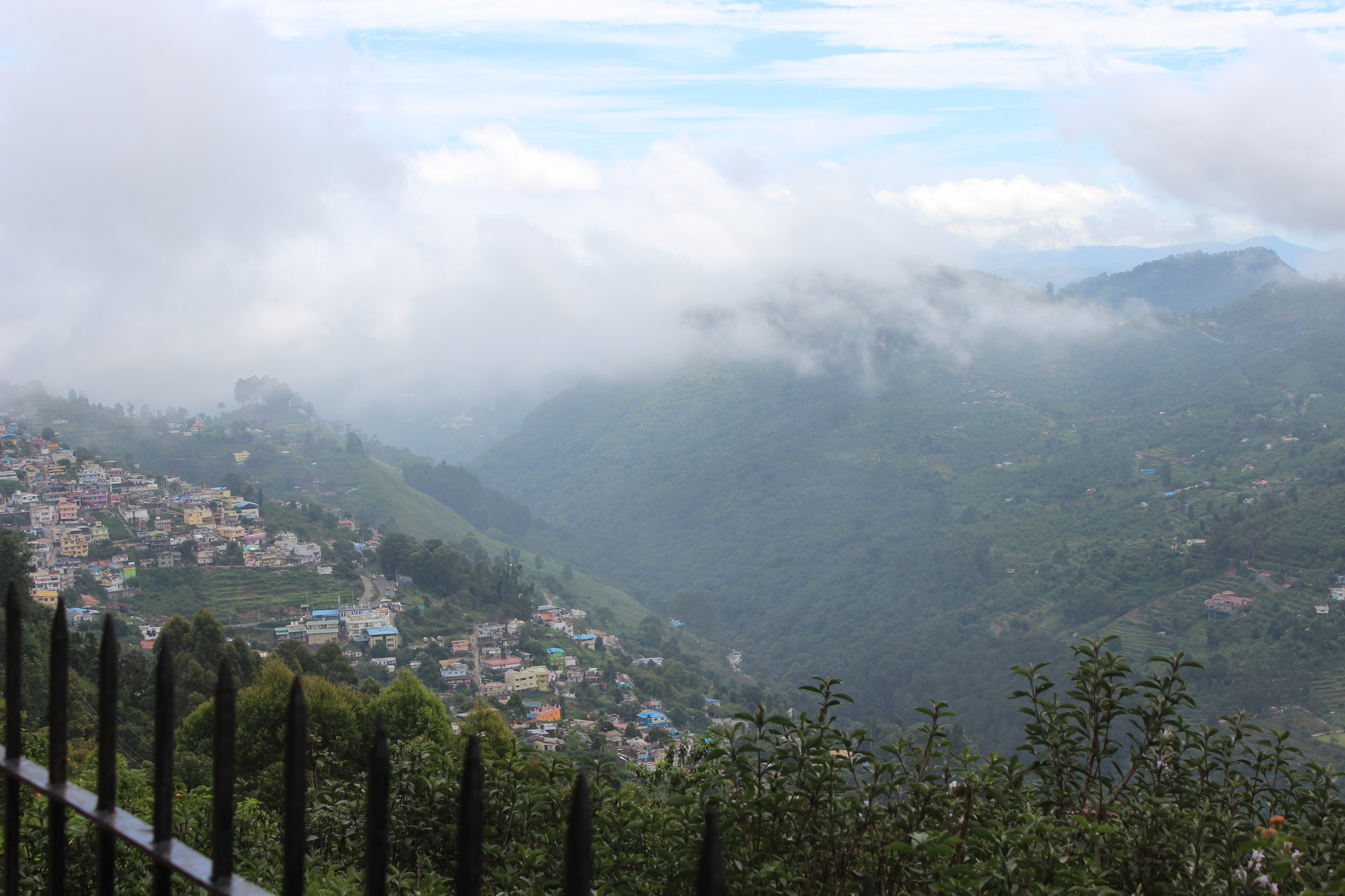 View from Coaker's Walk in Kodaikanal.